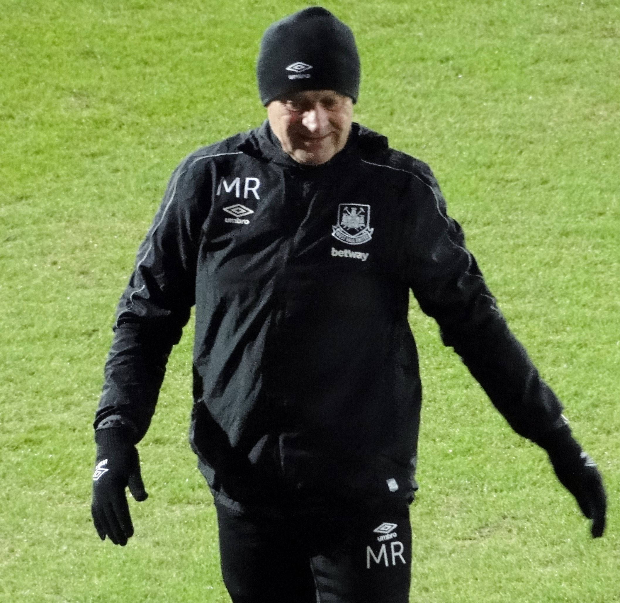 West Ham United coach, Miljenko Rak before their Premier League game v Manchester City at the Boleyn Ground, January 2016